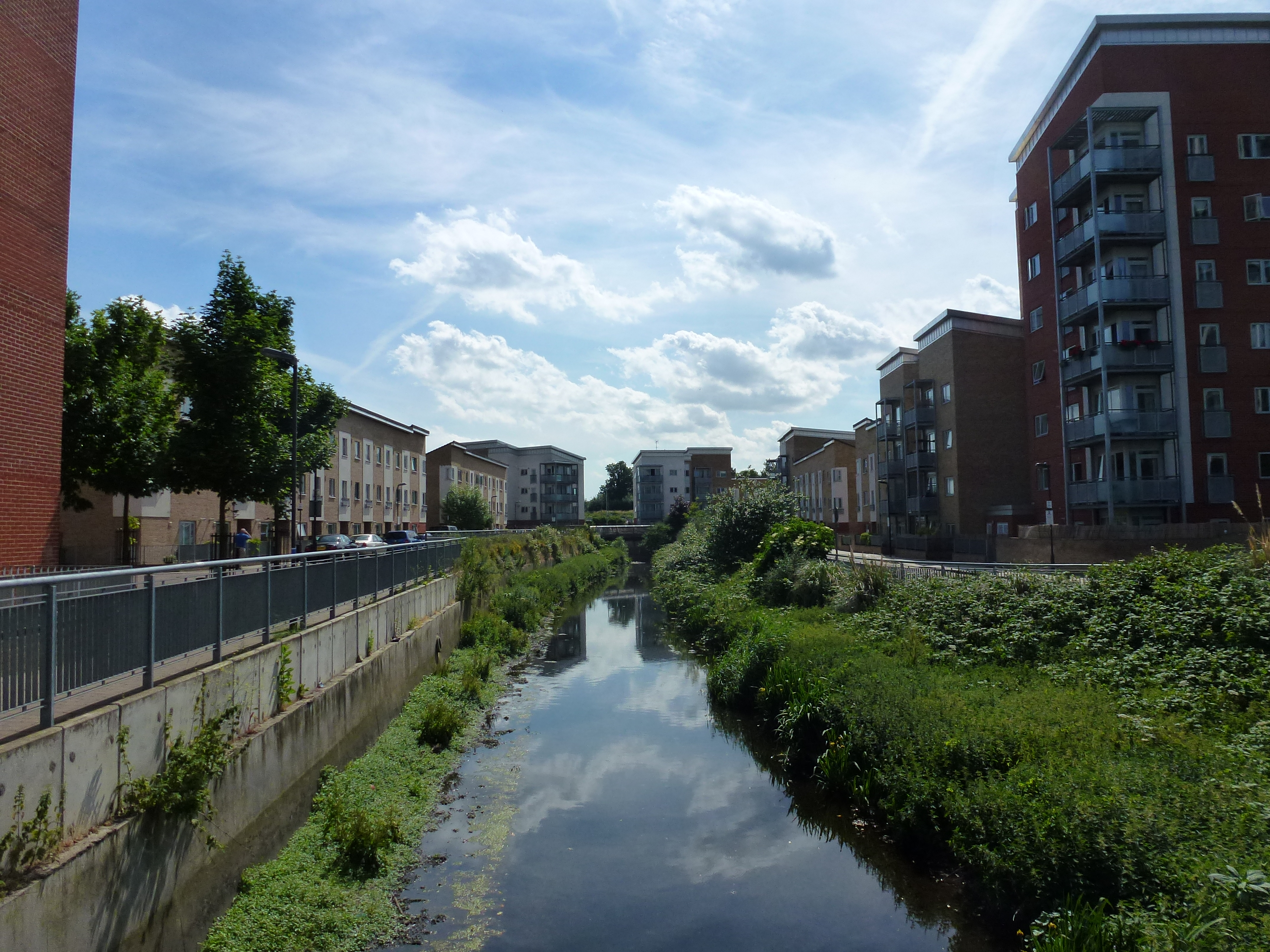 Surrounded by Cornmill Gardens Development